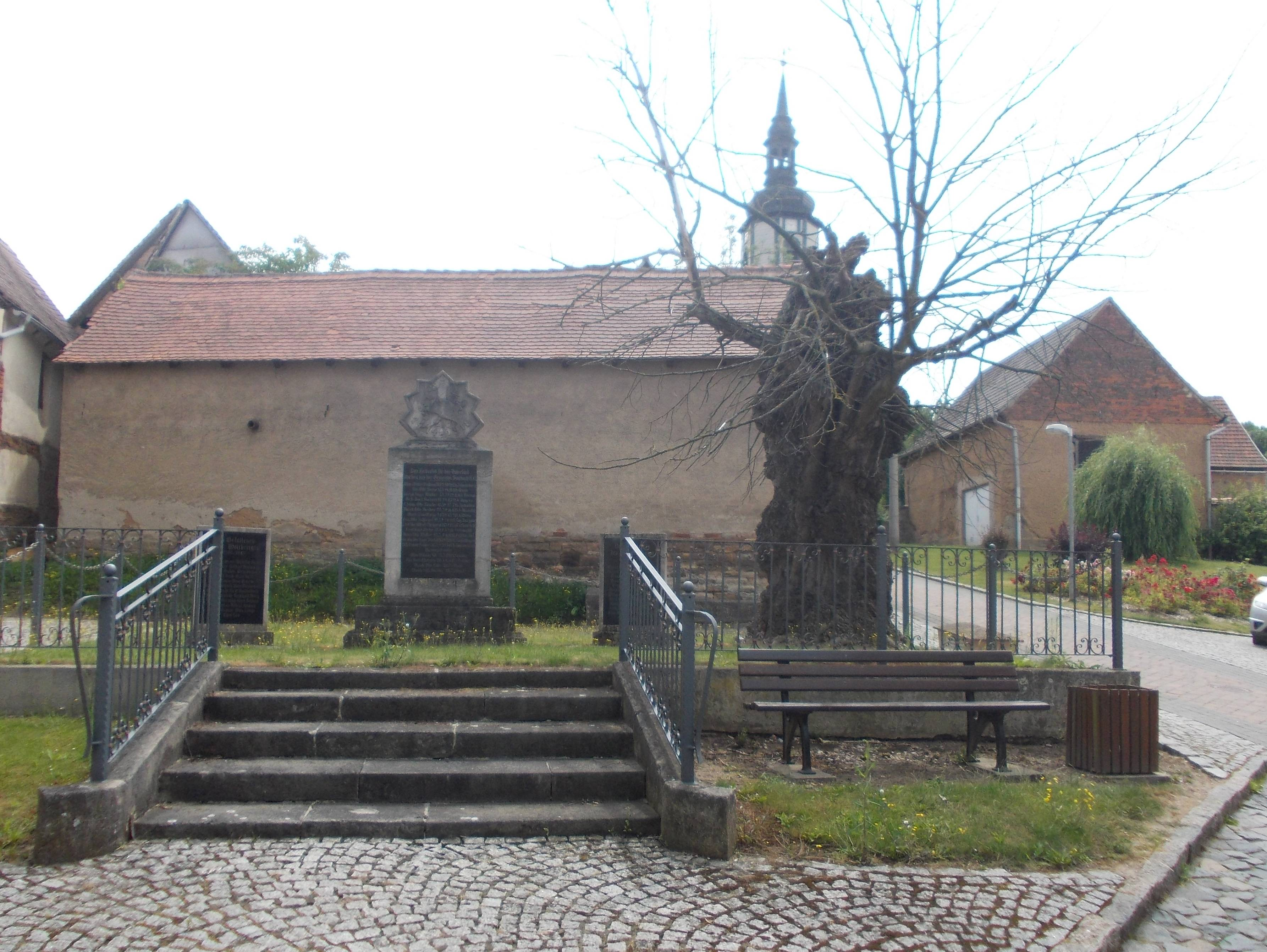 World War I and II memorials in Saubach (Finneland, district: Burgenlandkreis, Saxony-Anhalt)